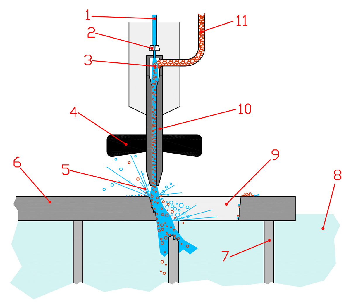 Diagram of water jet cutter machine.